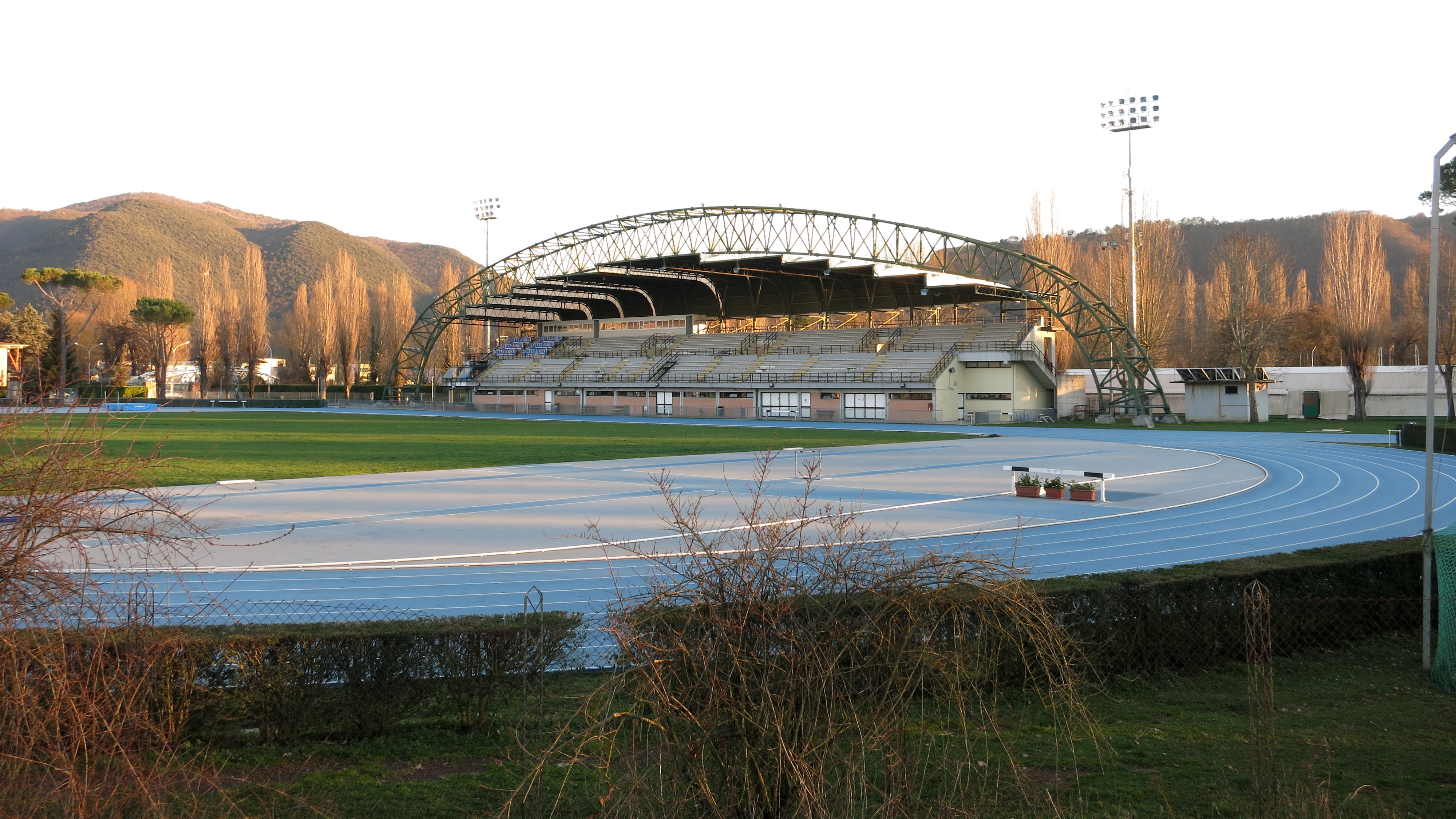 The "Velino" grandstand as seen from the embankment of the Velino river - Stadio Raul Guidobaldi, athletics venue in Rieti, Lazio, Italy